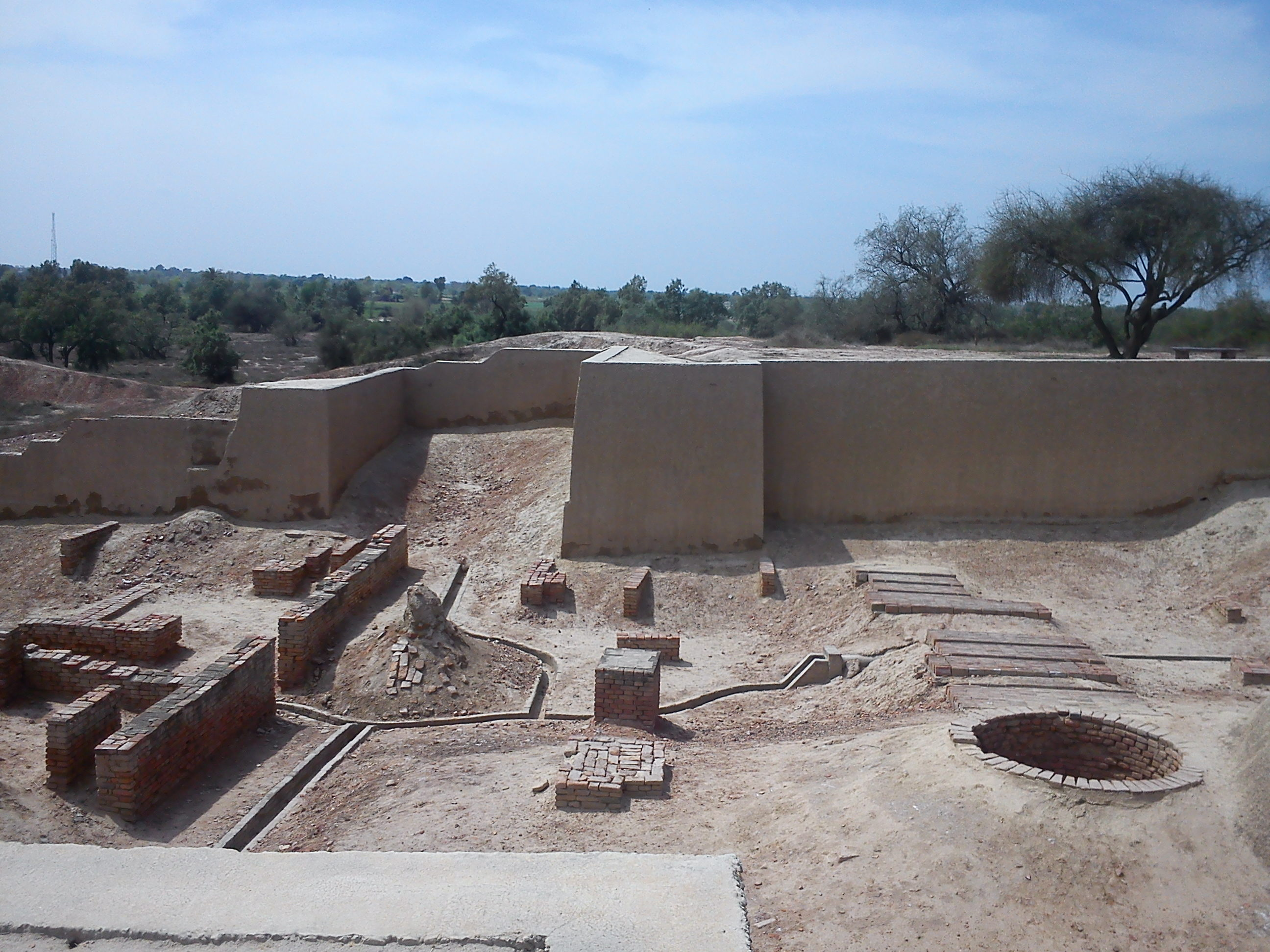 Archaeological Site of Harappa This is a photo of a monument in Pakistan identified as the PB-137